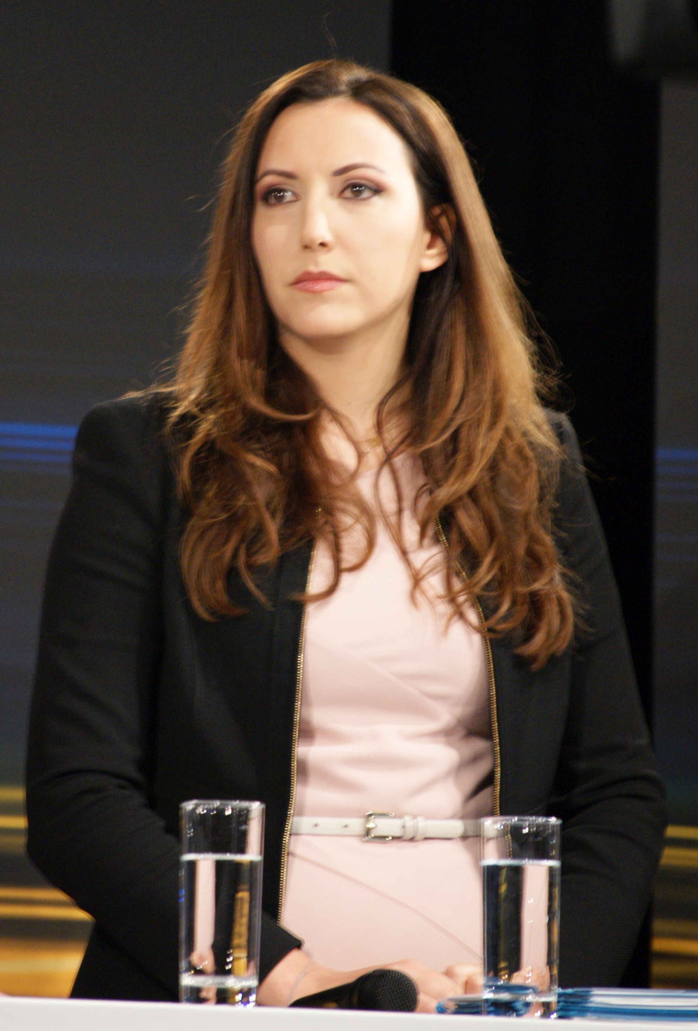 Petra Steger (FPOe) in the Discussion meeting on April 10, 2019, for the European elections 2019 in the Vonimnasaal in Rankweil, Vorarlberg, Austria with the top candidates.